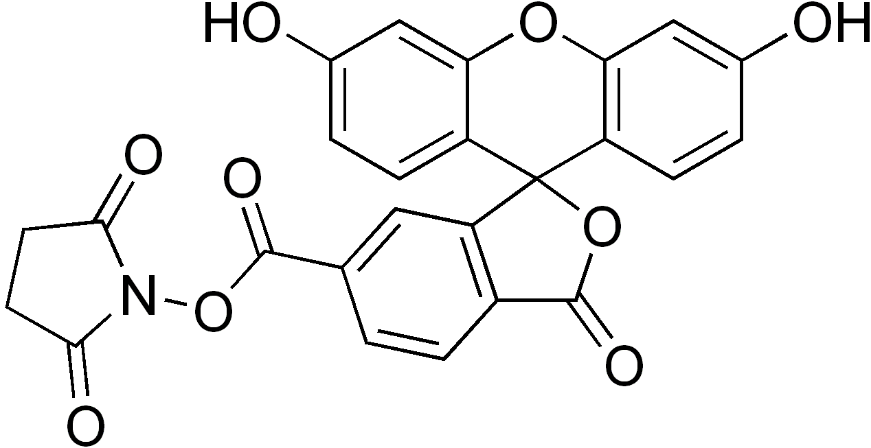 Chemical structure of carboxyfluorescein succinimidyl ester